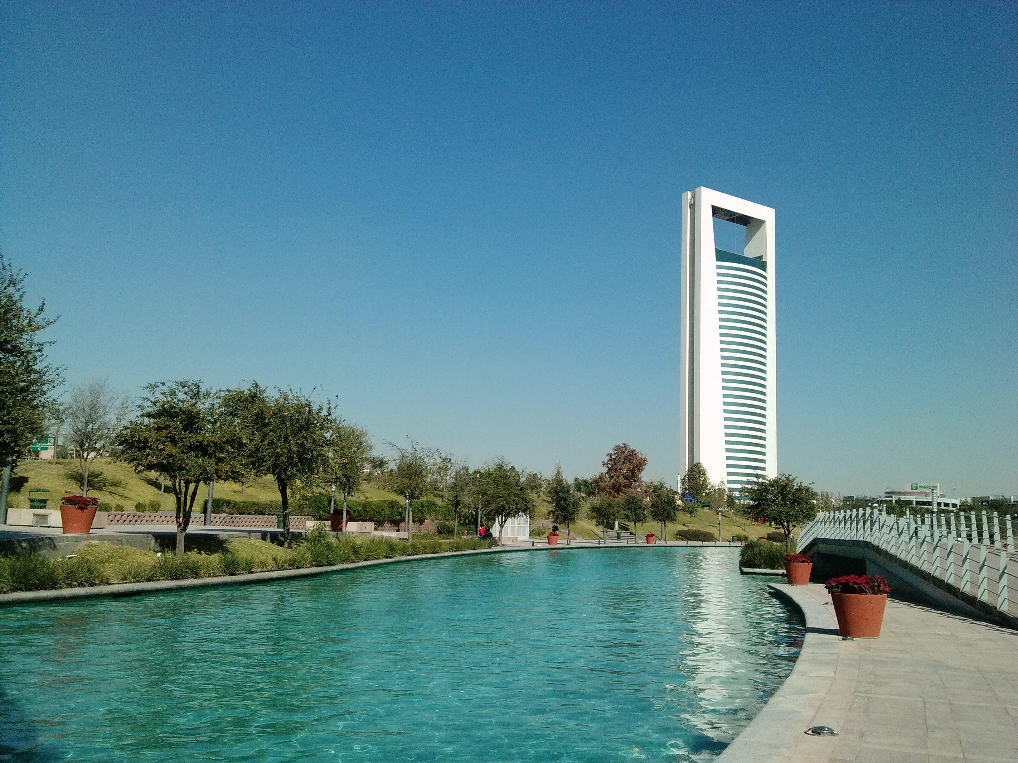 Torre Ciudadana, con sus 180 m es la octava torre más alta del norte del país vista desde el Paseo Santa Lucía.